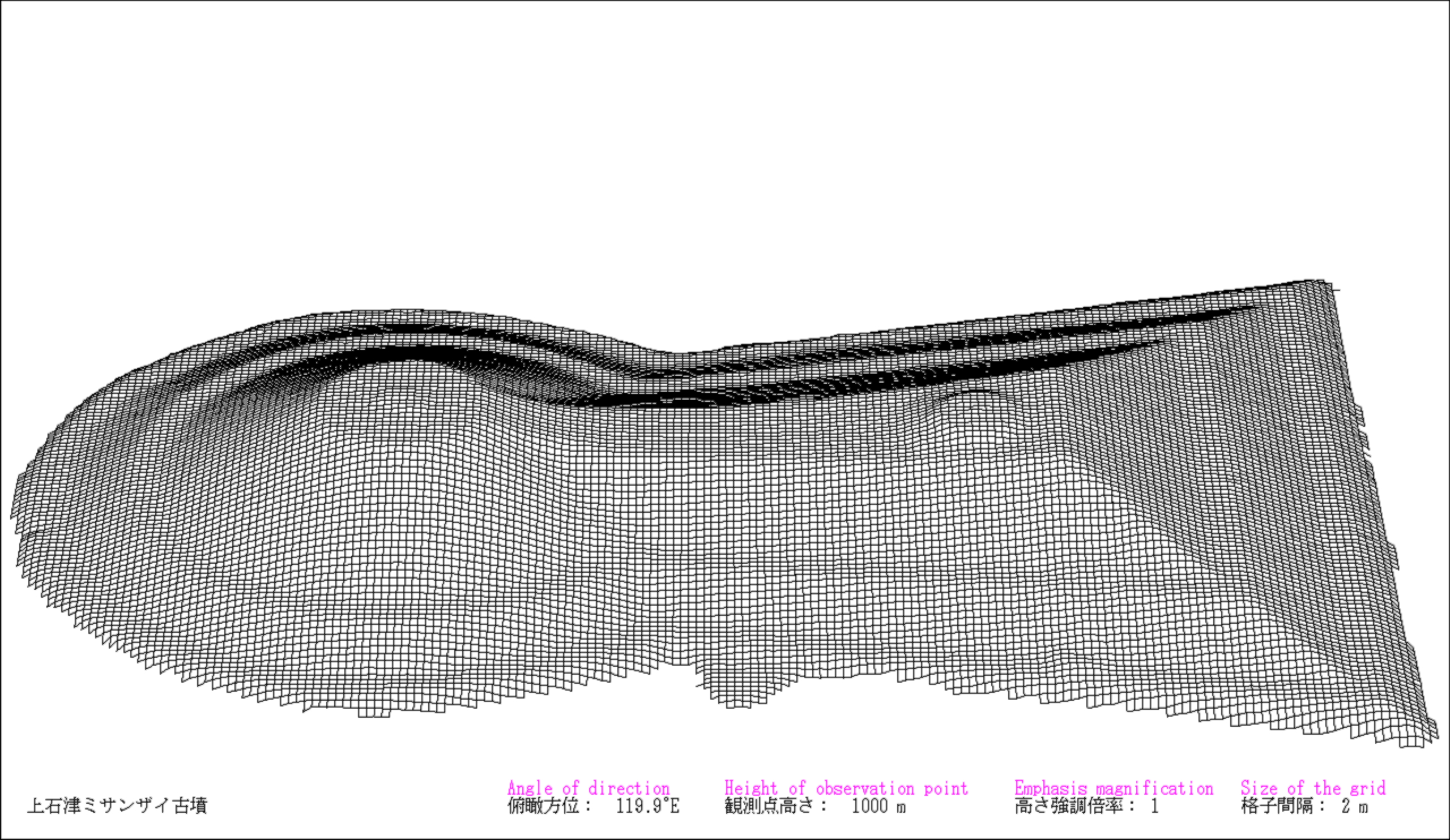 I who am a contributor drew the picture by a software which developed by myself. The survey map which I referred to depends on "「履中天皇陵古墳」『百舌鳥古墳群測量図集成』堺市 (2015年）". This is a drawing of present situation (not a drawing of a restored mound). The drawing depends on wire frame. Perspective projection.